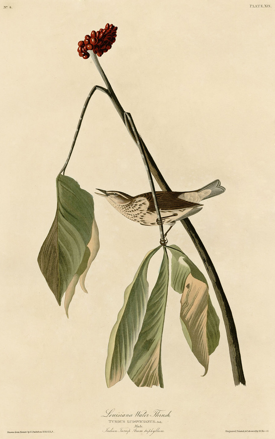 Plate 19 of Birds of America by John James Audubon depicting Louisiana Water Thrush.